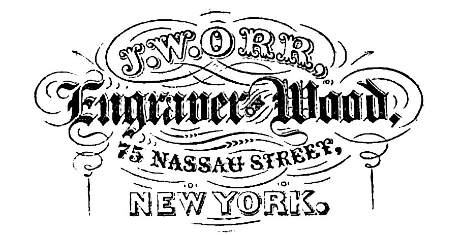 Advertisement appearing in a weekly newspaper, for the wood-engraver J. W. Orr